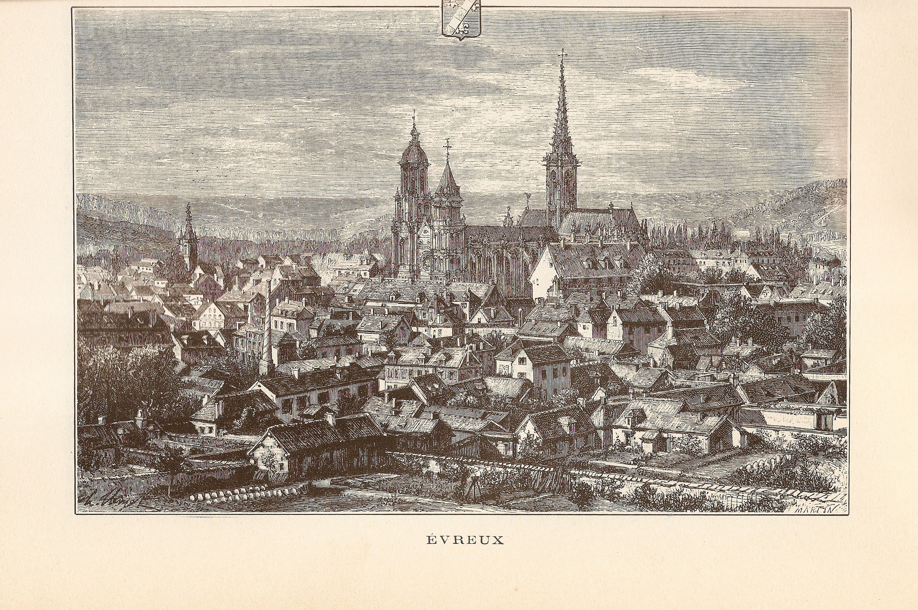 Engraving of the city of Évreux by H. Clerget in the book Le Département de L'Eure (1882) by Victor Adolphe Malte-Brun (1816 – 1889).